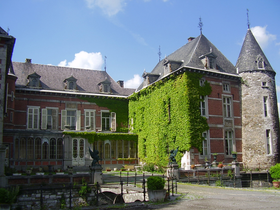 Main courtyard of the castle of Hermalle-sous-Huy, Belgium, 17th century. The tower (on the right side) is the trace of the castle of the 12th century.